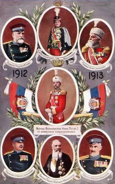 Postcard of the Balkan Wars 1912-1913. King Peter I, Crown Prince Alexander, Nikola Pasic, Duke Radomir Putnik, Generals Bozidar Jankovic, Stepa Stepanovic and Mihailo Zivkovic